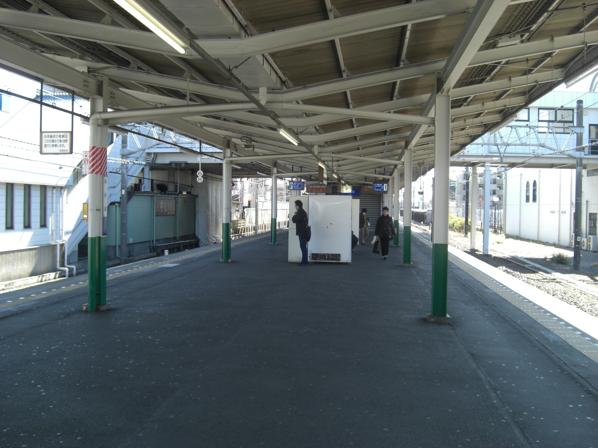 Platforms of Wakaba Station on the Tobu Tojo Line in Sakado, Saitama, Japan